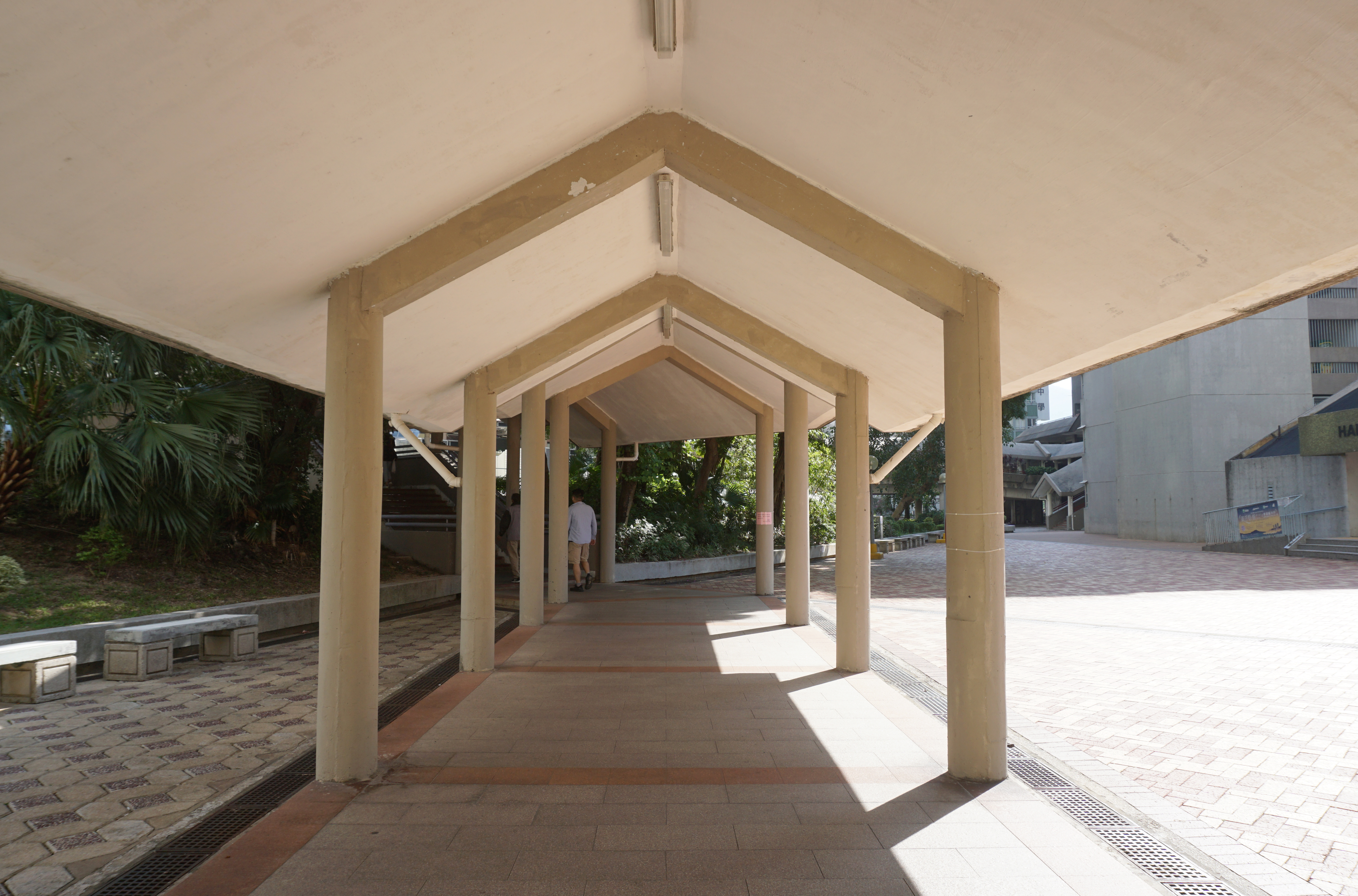 Heng On Estate in Heng On, Hong Kong.